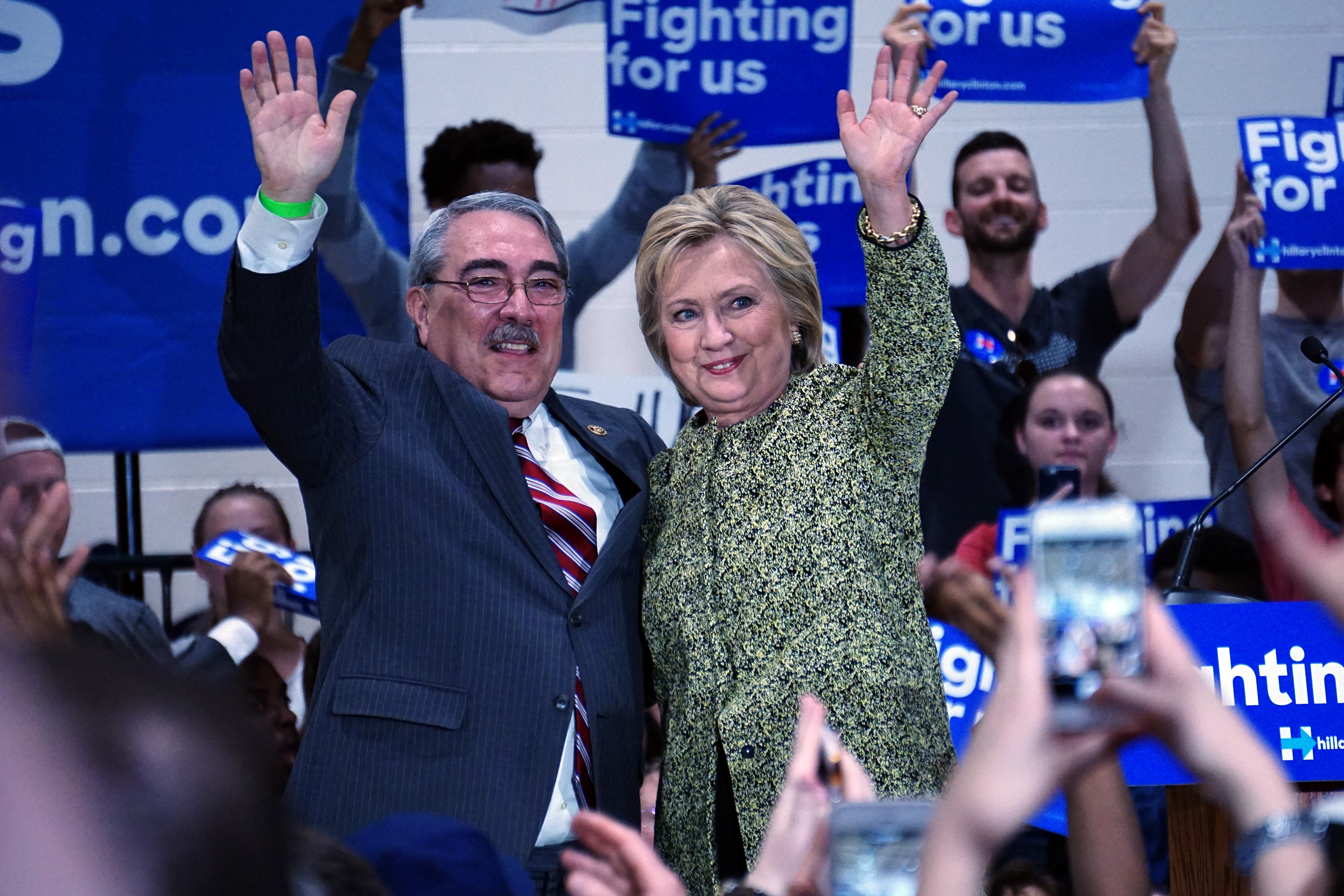 Campaign rally at Hillside High School in Durham, North Carolina